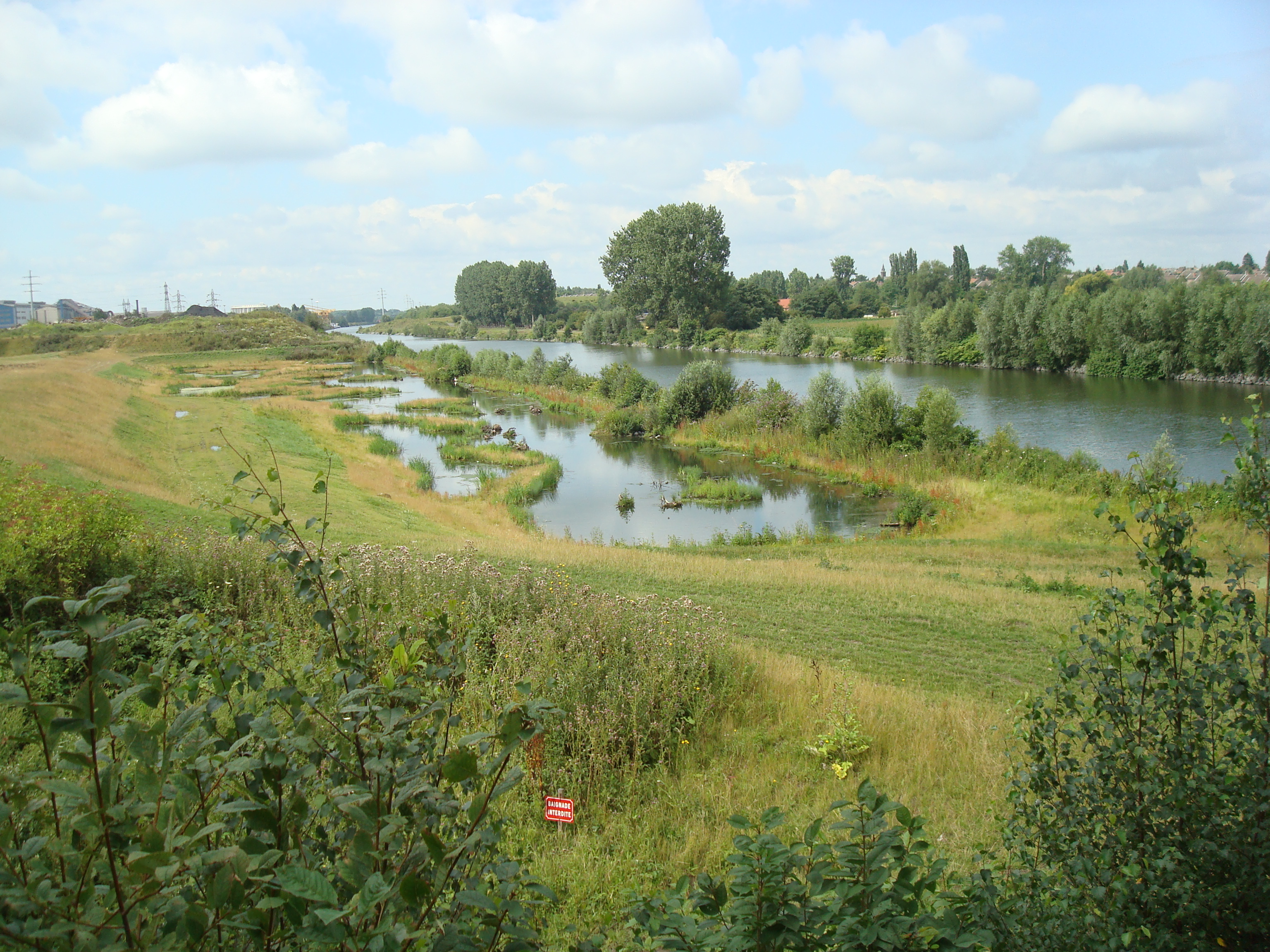 Banks with subnatural lagoons (Constructed wetland) were created (2010) by VNF (Waterways of France), as a countervailable to set wide gauge of the Scheldt in the north of France, on the edge of the river. The lagoon is divided into meanders in order to extend the ecotone soil-water and purifying water of the Scheldt. It is powered by the Scheldt itself passively or more "active" during the passage of boats (which produces a wave with pressure and depression).